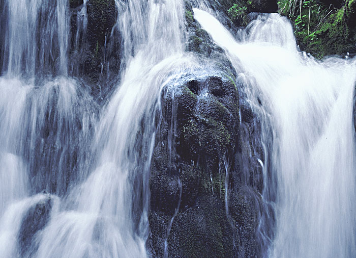 Natural Troll, Hamarøy, Norway, June 2002, by Michael Haferkamp The Troll can be found at the coast of the island of Hamarøy (opposite to the Lofoten) at position 68° 7′ N 15° 24′ E. Access to this area requires some climbing along the coastline rocks. The Troll can not allways be seen. Sometimes the waterfall increases so much, that his face is completely covered.